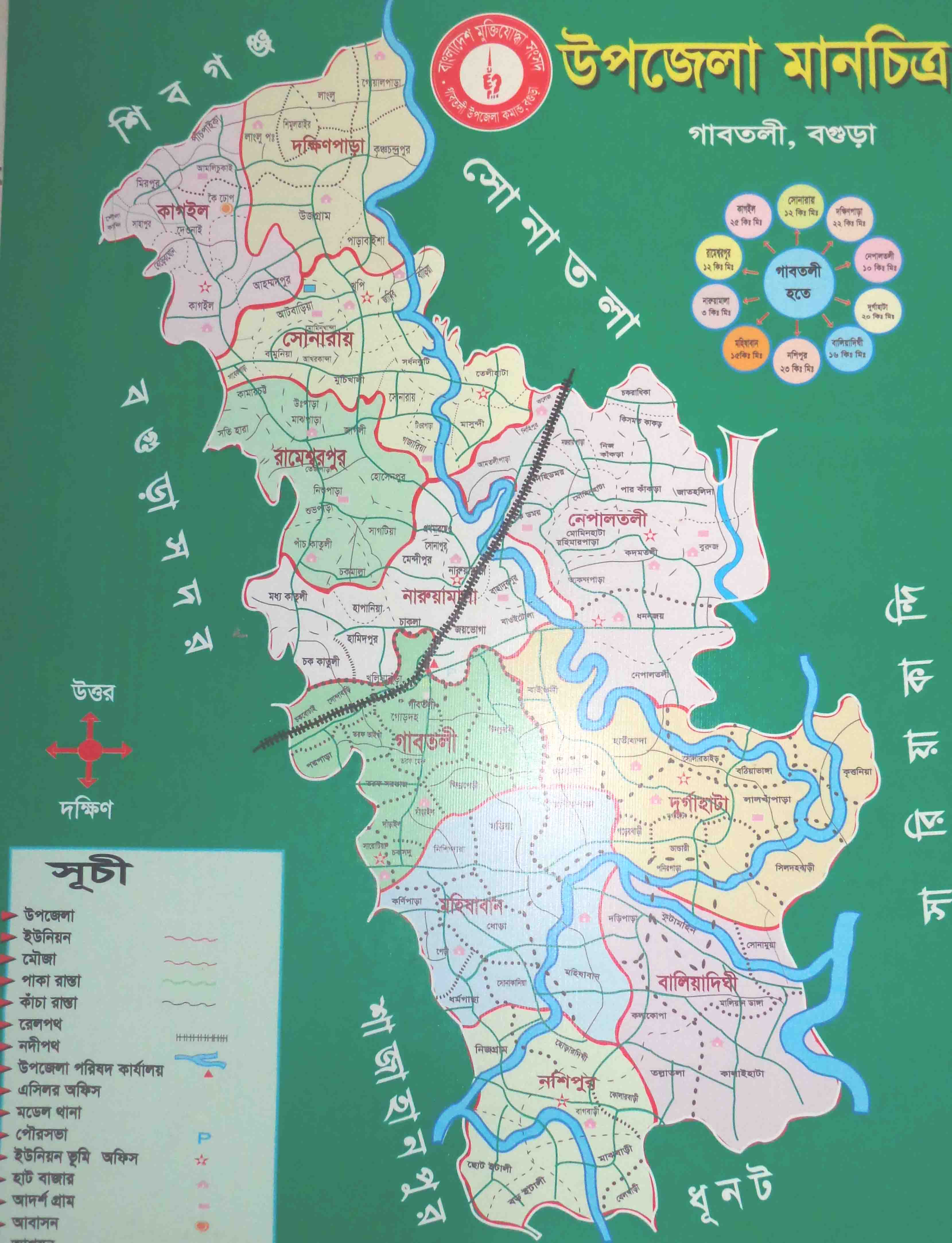 বাংলাদেশের উপজেলা